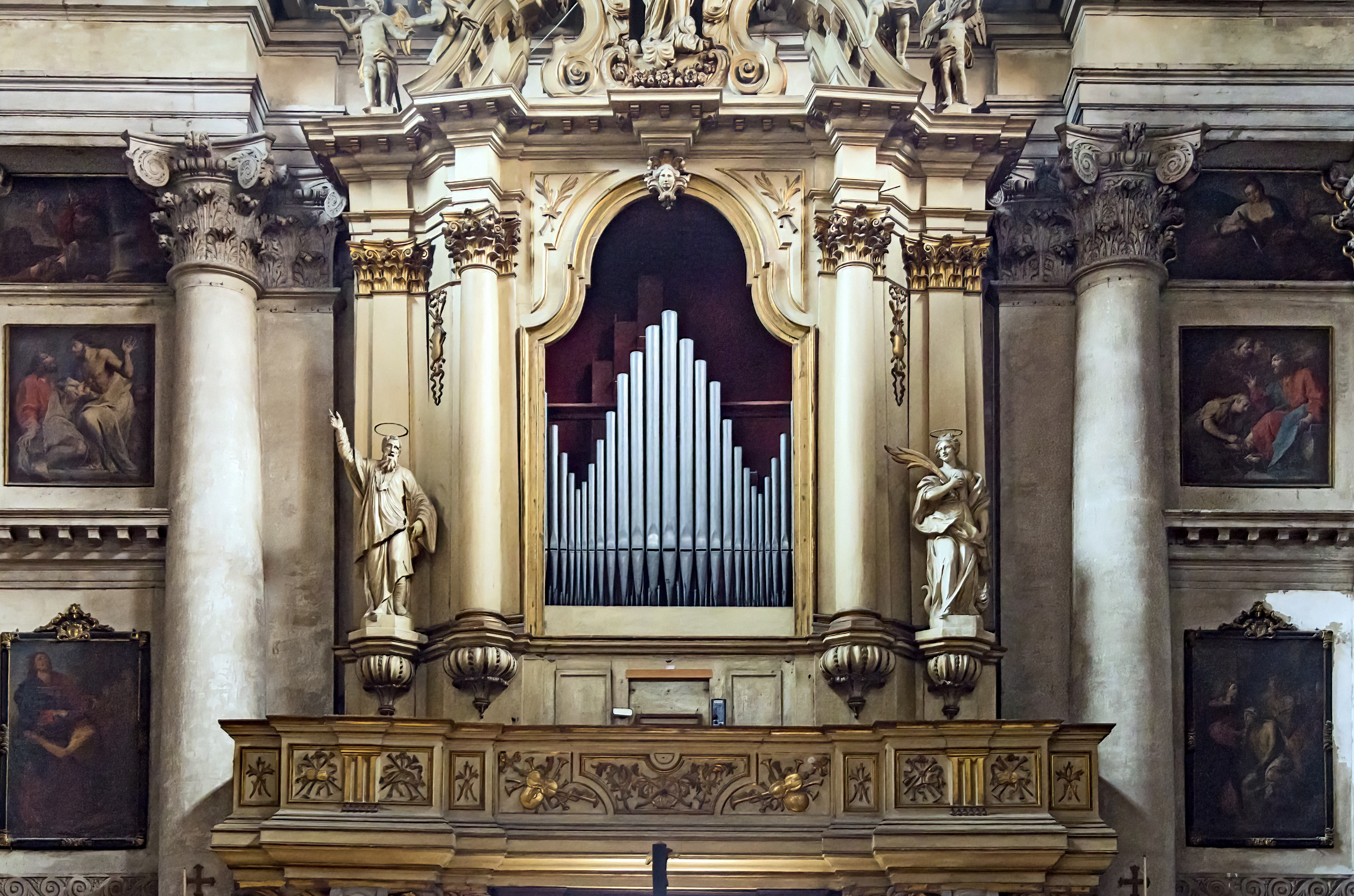 Church San Pantalon Venice. Organ by Gaetano Callido, Op.400: 1803. Cantoria lacquered and golden by Pietro Checchia.